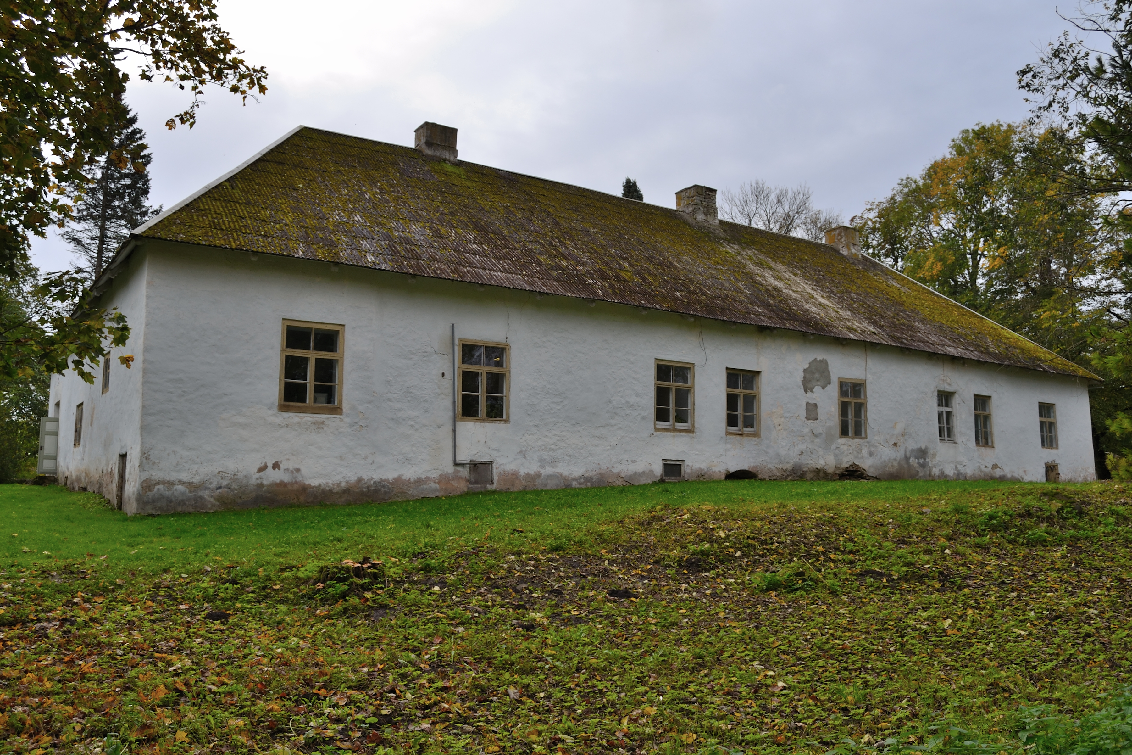 Kabala manor main building